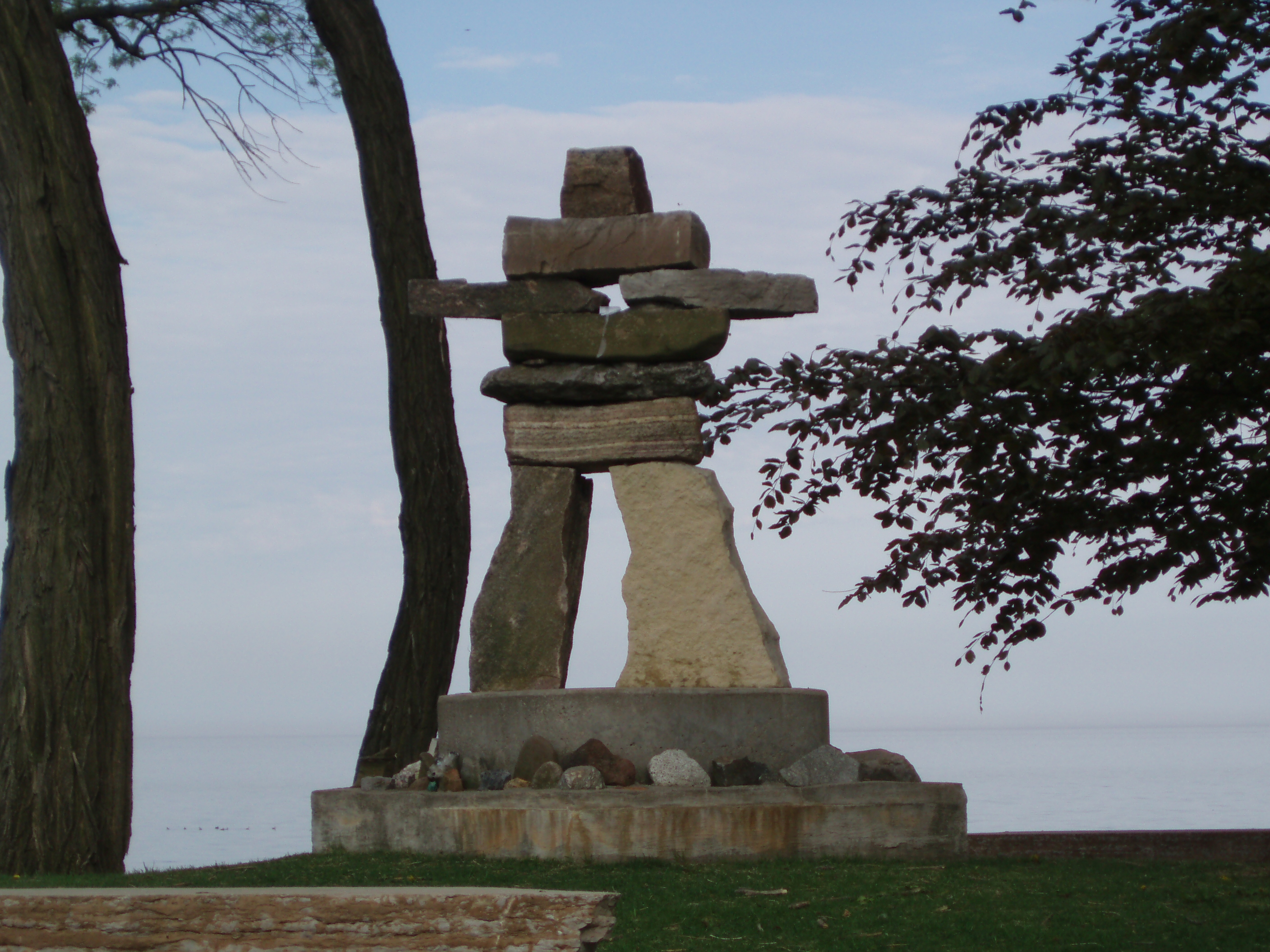 Appleby College